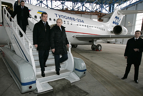 ZHUKOVSKY, MOSCOW REGION. At the Mikhail Gromov Flight Research Institute. With First Deputy Prime Minister Dmitry Medvedev.